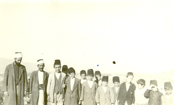 Caption: Moslem teachers and students. Antioch, Syria. Citation: Silas and Anna Weaver Hertzler Papers. Middle East Photographs, 1919-1920. HM1-197 Box 19 Folder 2. Mennonite Church USA Archives - Goshen. Goshen, Indiana.